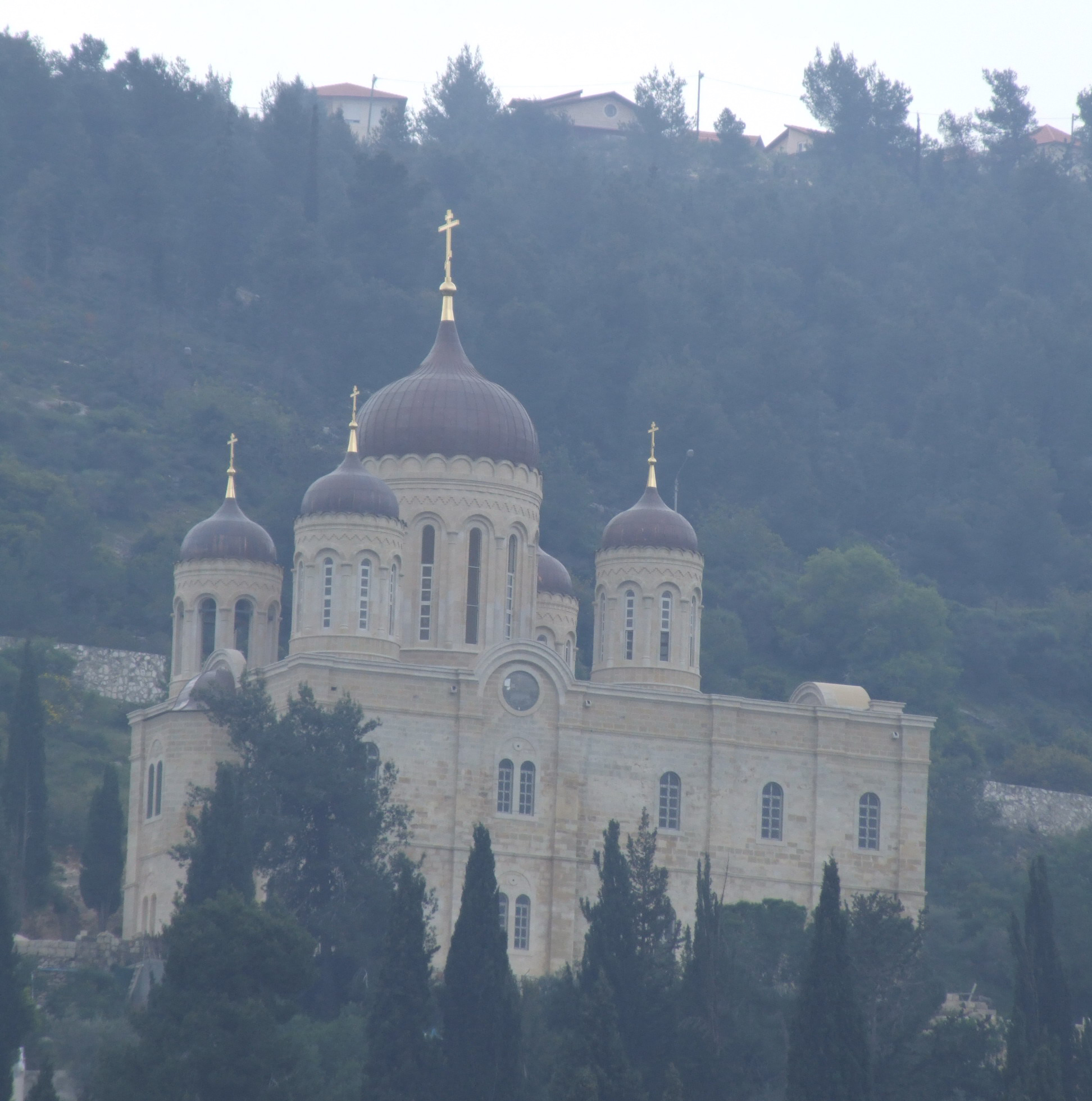 Ein Kerem is a neighborhood in Jerusalem, Israel.